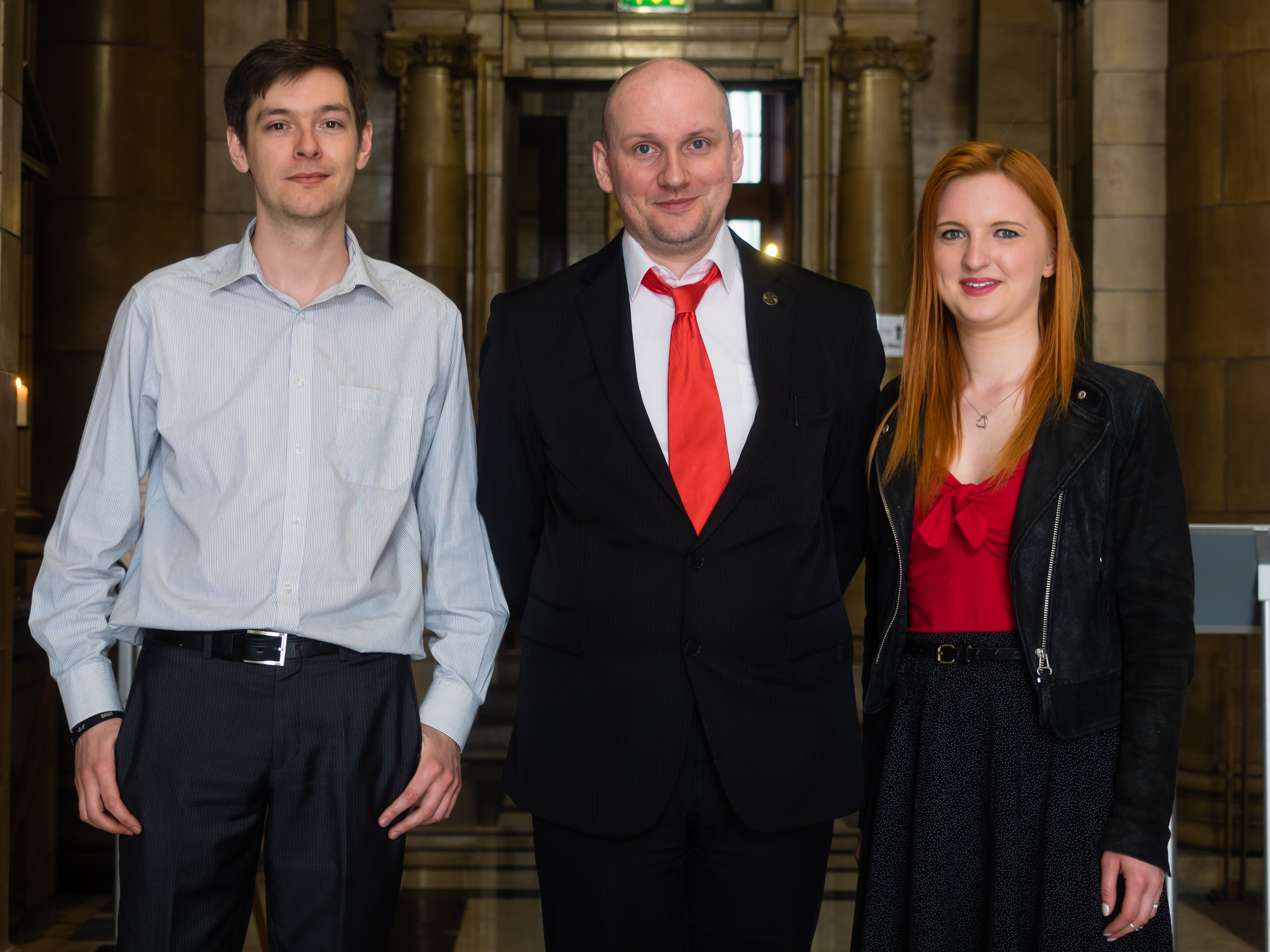 L-R Michael Marshall, Mike Hall and Alice Howarth of the Skeptics with a K podcast at the QED: Question Explore Discover conference at The Palace Hotel, Manchester on 26 April 2015